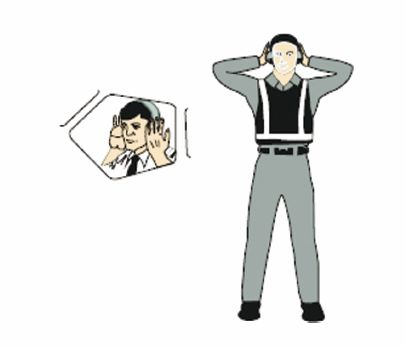 MARSHALLING SIGNALS from a signalman/marshaller to an aircraft / STANDARD EMERGENCY HAND SIGNALS. Description: "Establish communication via interphone" (technical/ servicing communication signal). Extend both arms at 90 degrees from body and move hands to cup both ears.